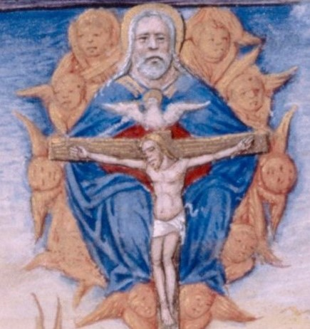 The Triumph of Eternity is represented by a cart drawn by the Four Evangelists with their symbols; on the cart is a Gnadenstuhl representation of the Trinity.